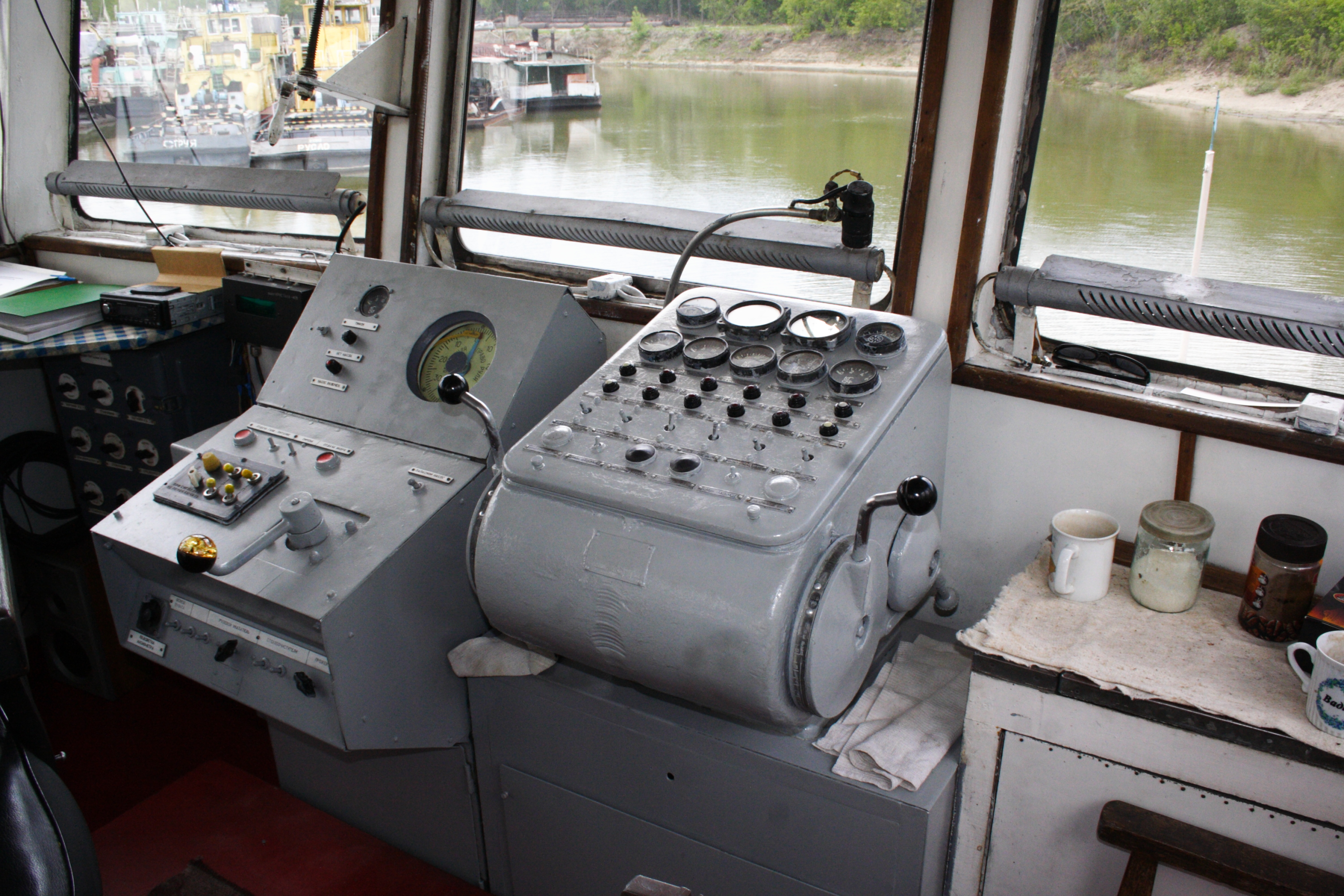 Pilothouse of tug-pusher RT (project 911V)